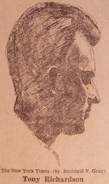 drawing commissioned by The New York Times